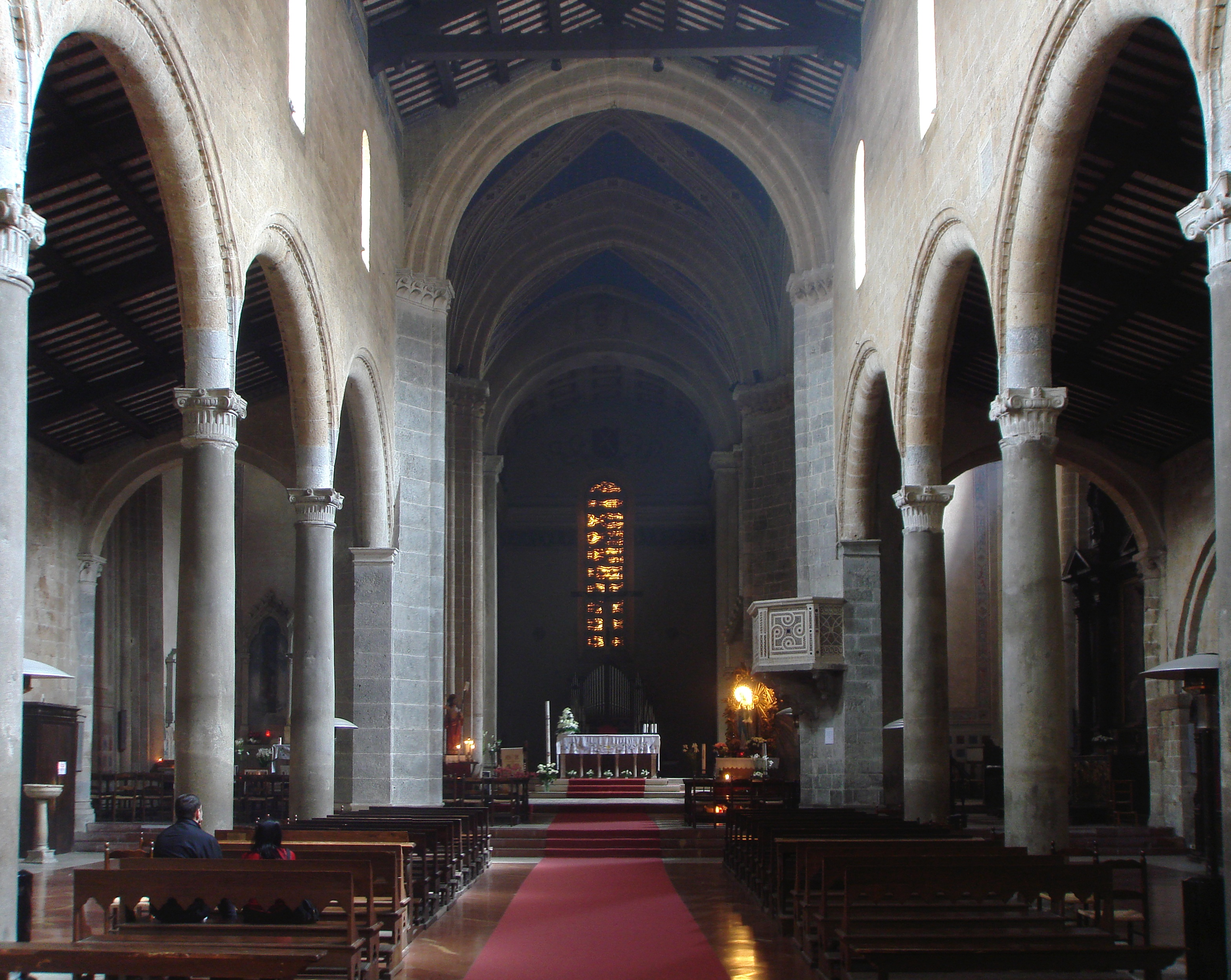 Inside of Chiesa di Sant'Andrea (Piazza della Repubblica, Orvieto, Italy) Central aisle view from position of central door; hugin stitch of several images.